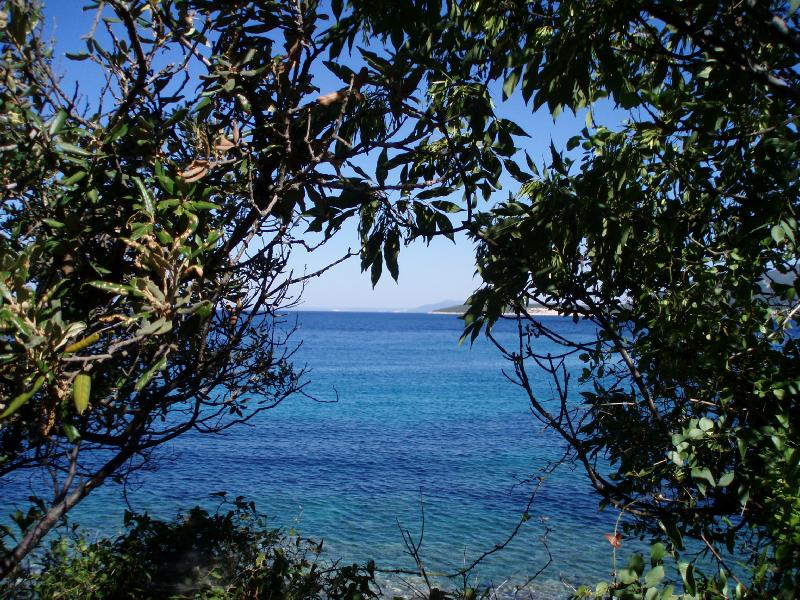 Taken by Thomas Musich on Cres in Croatia.